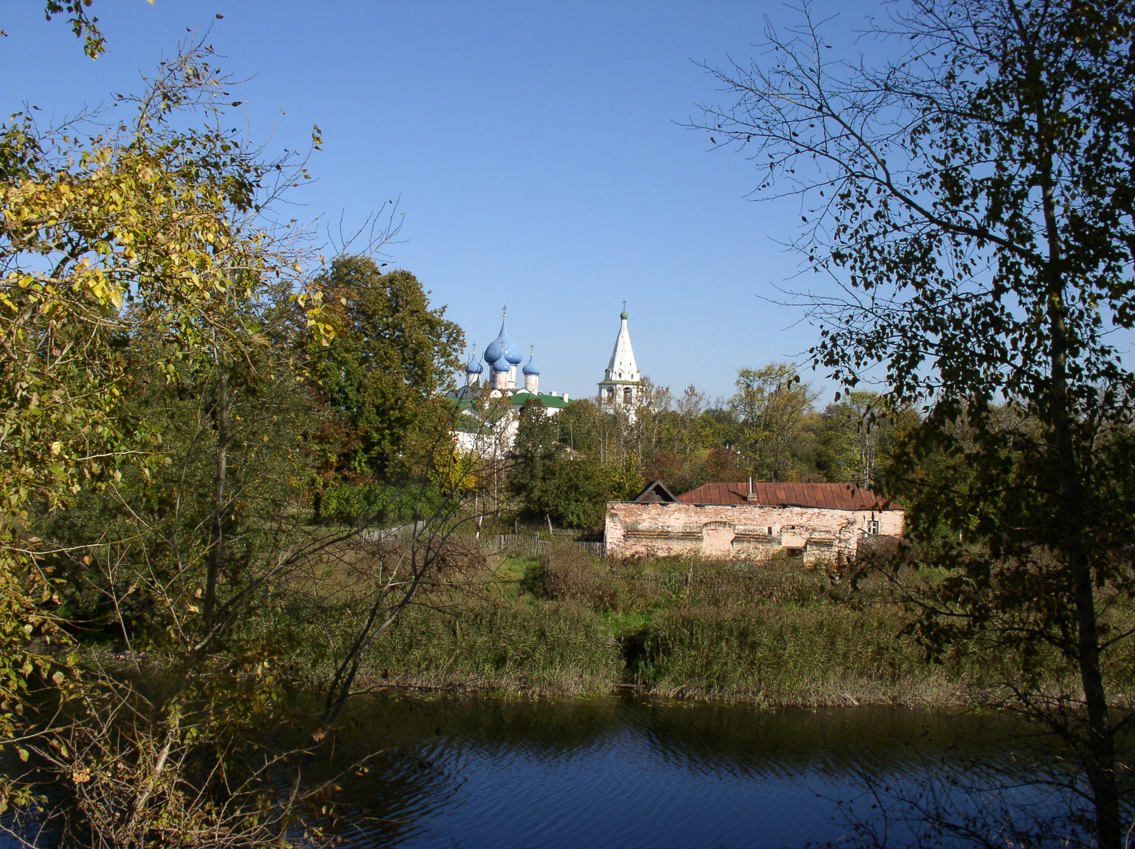 Nativity Cathedral. Suzdal, Russia.